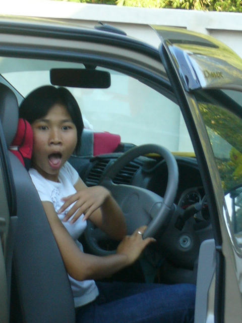 Scared look — The girl (13 y.o.) honked accidently and was surprised afterwards.